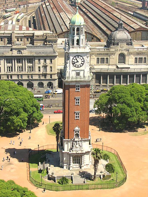 Torre Monumental (former name Torre de los Ingleses) at Plaza Fuerza Aérea Argentina in Buenos Aires. The tower reaches a height of 75.5 m (247 ft) and has eight floors. The Retiro Railway Station can be seen in the background.